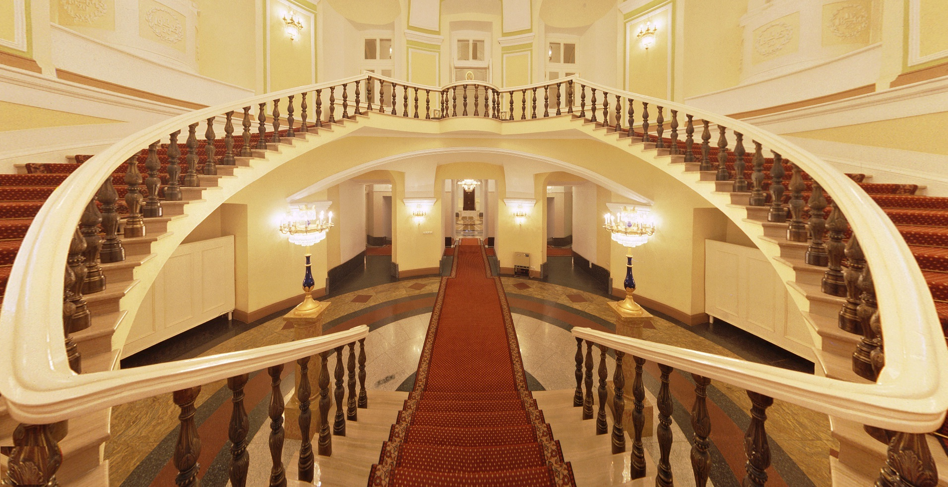 Shohinskaya ladder. Senate Palace Moscow Kremlin